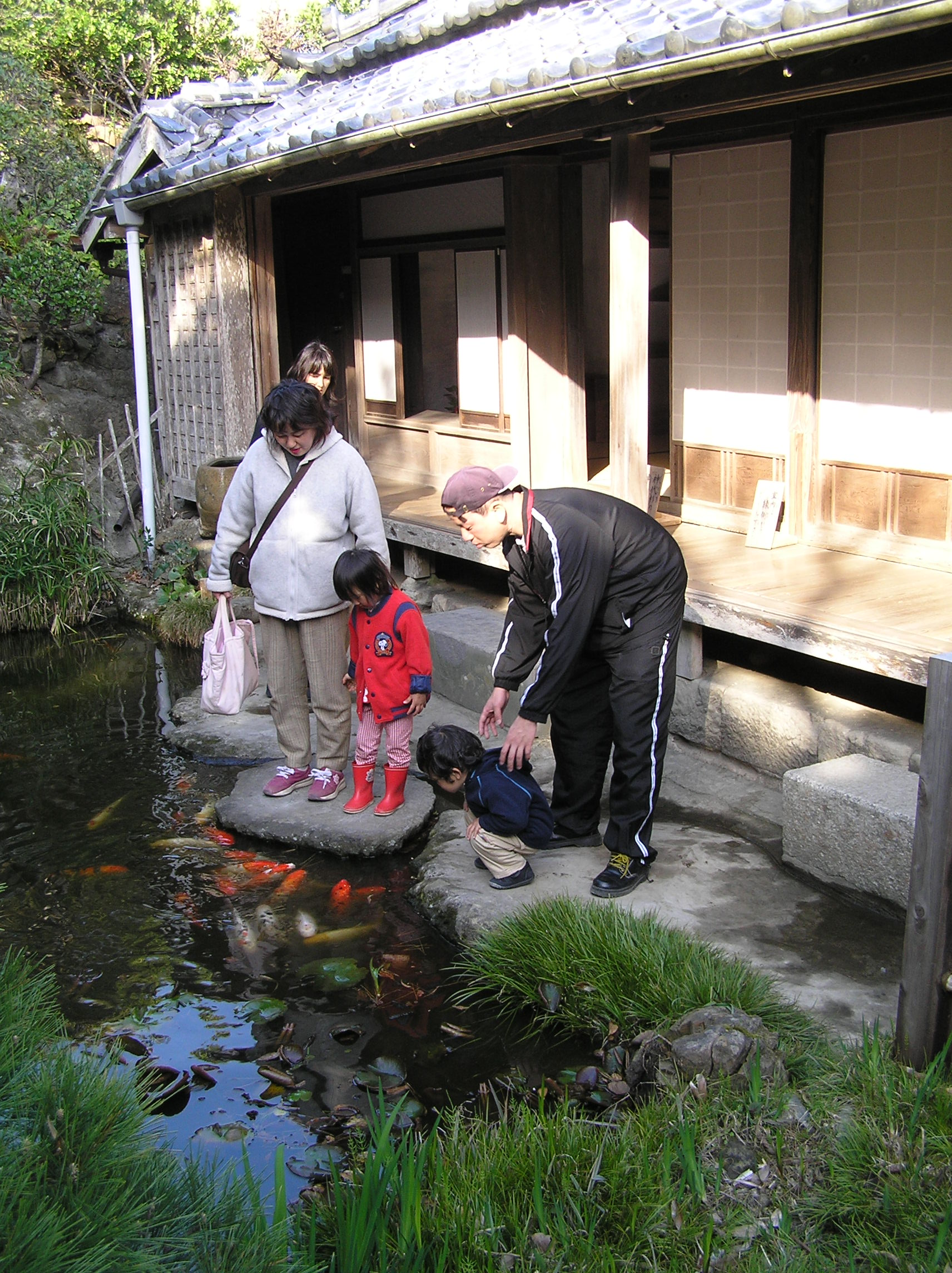 The residence of Hirano Niemon, the owner of Niemonjima.